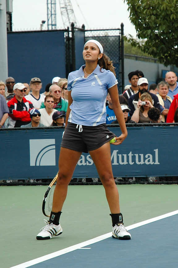 Sania Mirza at 2006 US Open, New York, United States